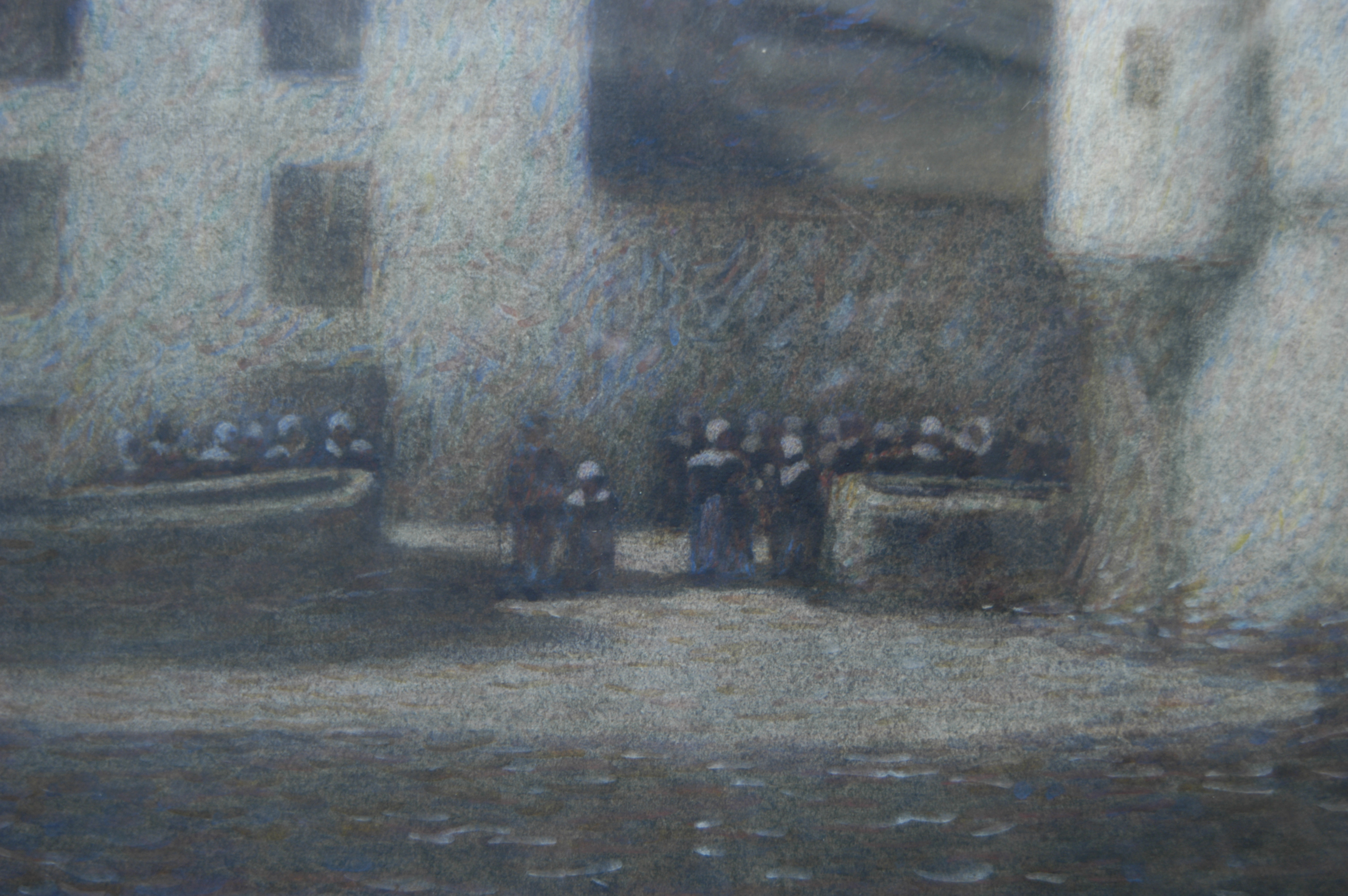 photo by me (Rodolph (talk)R. de Salis) of part of A. Romilly Fedden's watercolour Moonlight, Quimperlé, June 1902, showing Breton women.